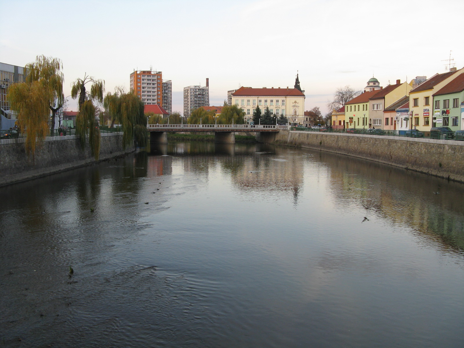 The Dyje River in centre of Břeclav.